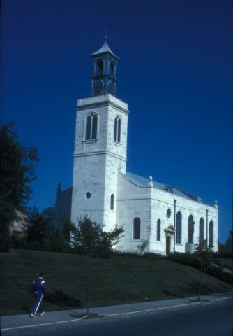 CHURCH OF ST. MARY ALDERMANBURY; A 17TH CENTURY CHRISTOPHER WREN CHURCH THAT WAS EXTENSIVELY BOMBED DURING WW II. THE CHURCH WAS MOVED PIECE BY PIECE TO FULTON AS A LIVING MEMORIAL TO WINSTON CHURCHILL